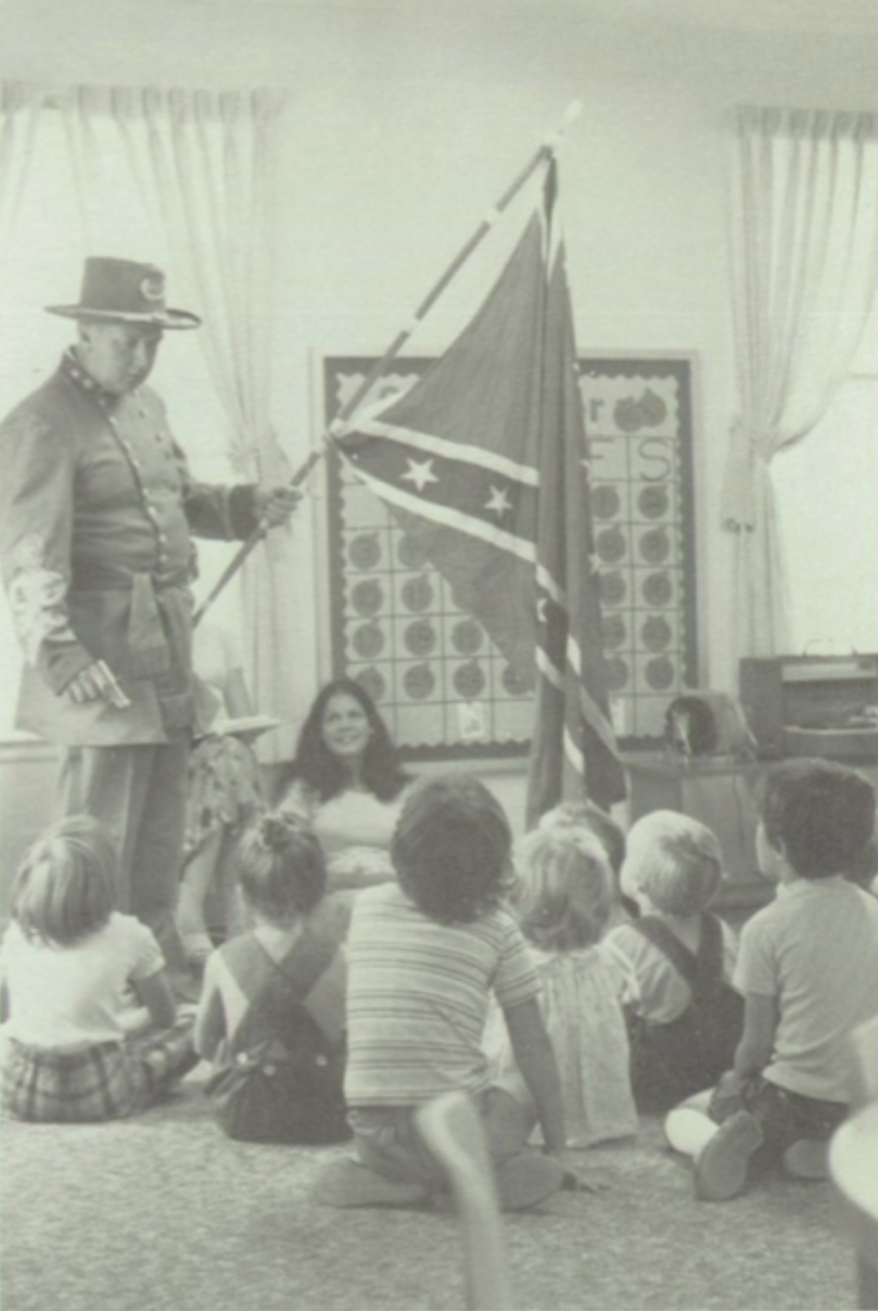 Headmaster Bill Bradshaw poses in a Confederate uniform with a Confederate flag in the 1979 Franklin Road Academy yearbook.